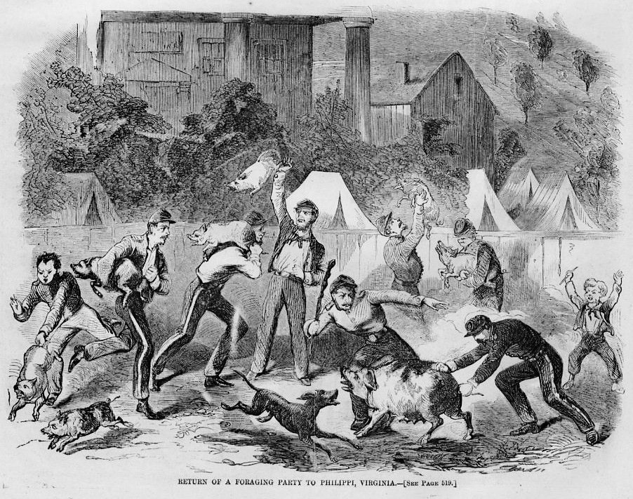 Group of Union soldiers after the battle of Philippi, Virginia (West Virginia) and the spoils of war